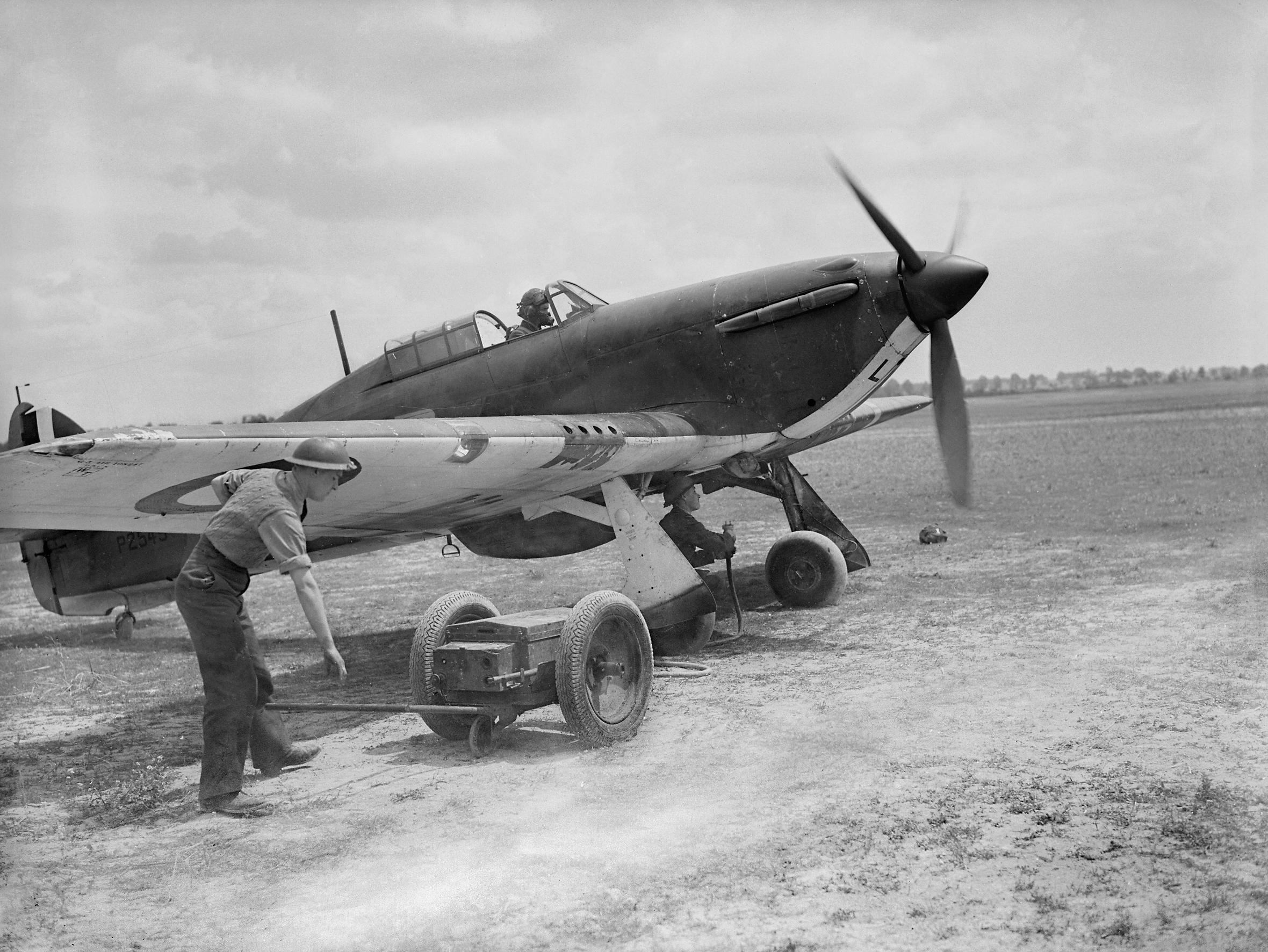 Royal Air Force- France, 1939-1940. Ground crewmen using a trolley-accumulator start up a Hawker Hurricane Mark I of No. 501 Squadron RAF at Betheniville.